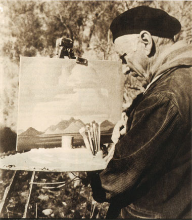 Photo of JH Pierneef at work